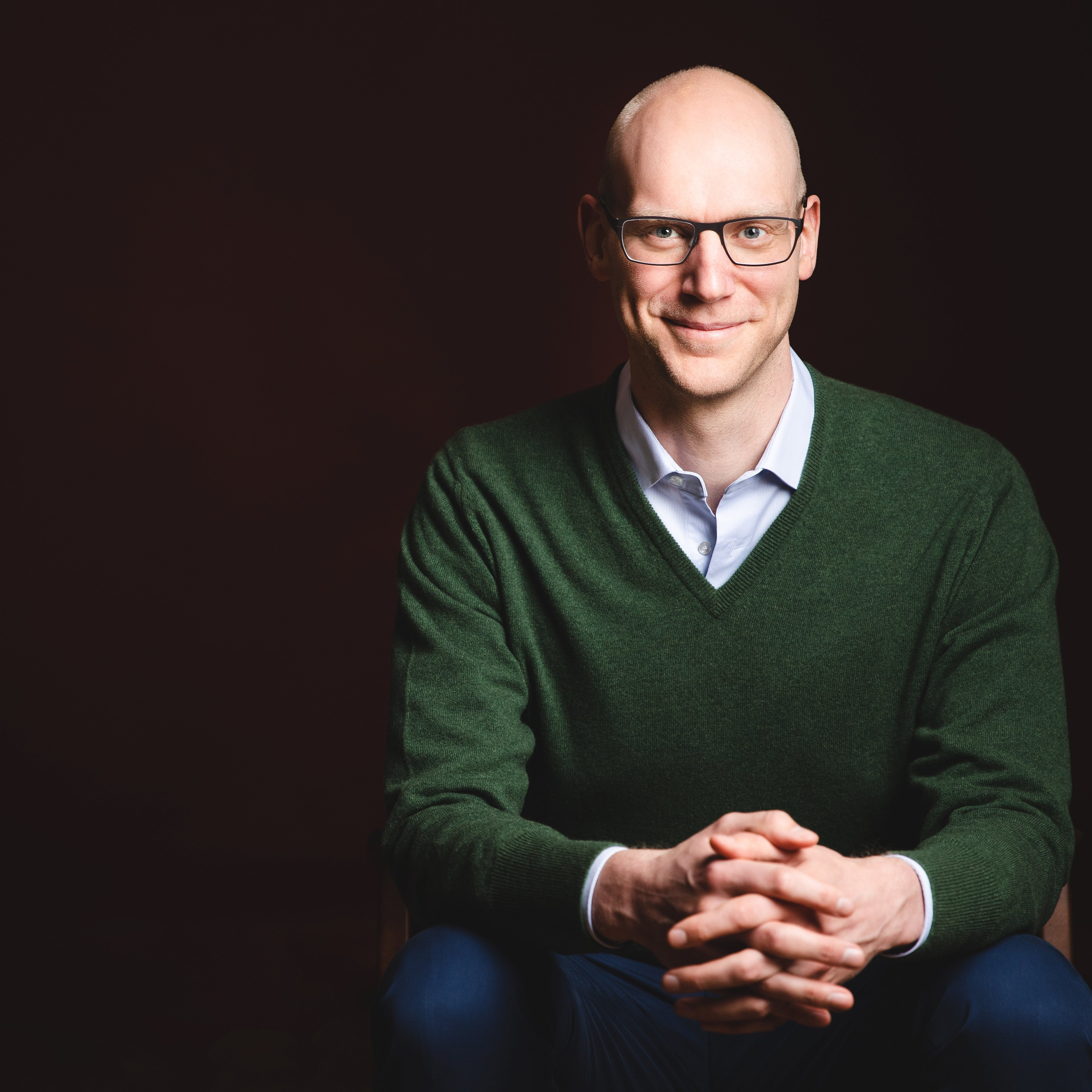 Professor Philip Meissner